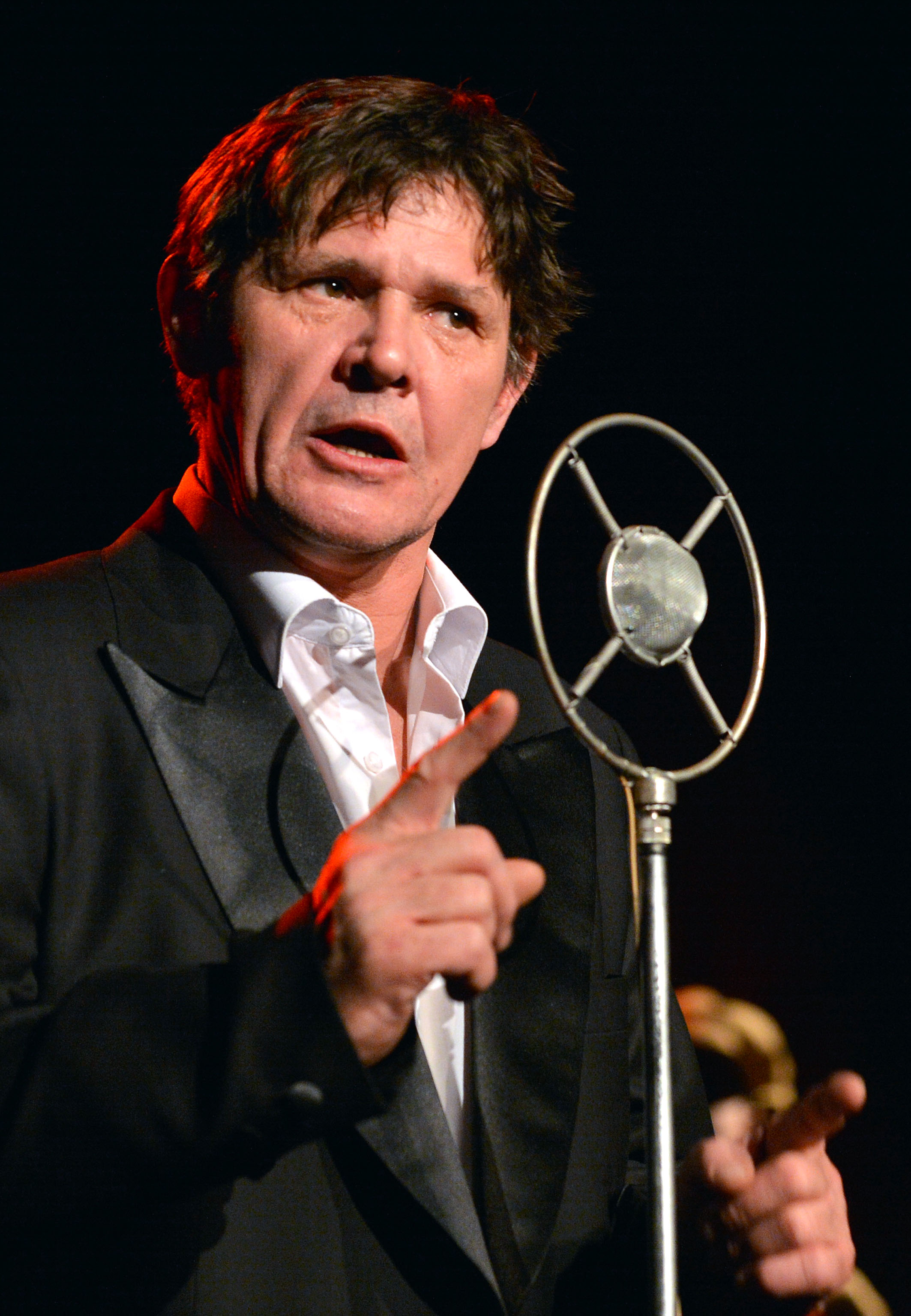 Handrik Höfgen (Martin Havelka), from the play Mefisto by Městské divadlo Brno